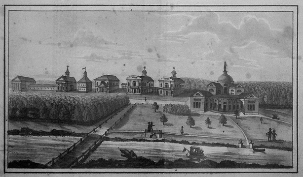 The Durasov Hall in Lyublino